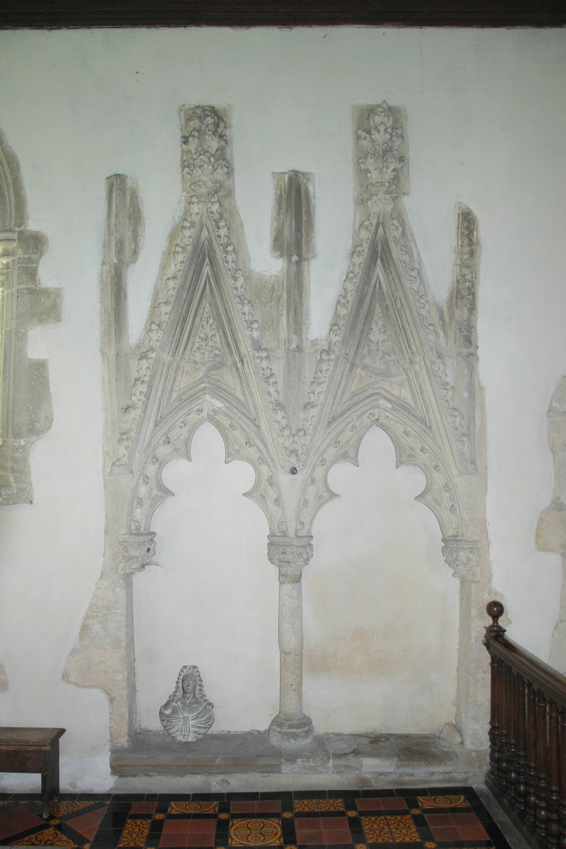 Church of England parish church of St Nicholas, Piddington, Oxfordshire: 14th-century Decorated Gothic sedilia on the south side of the chancel.